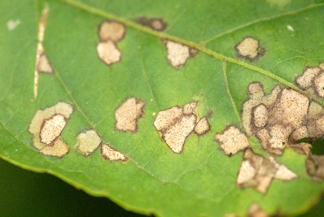 Liriomyza amoena from Commanster, Belgian High Ardennes .